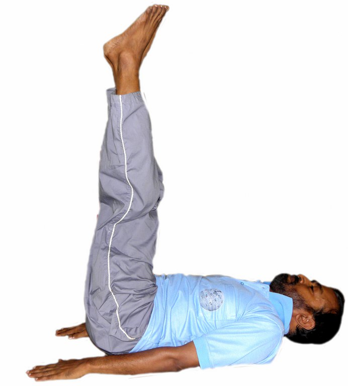 Balancing bear-posture